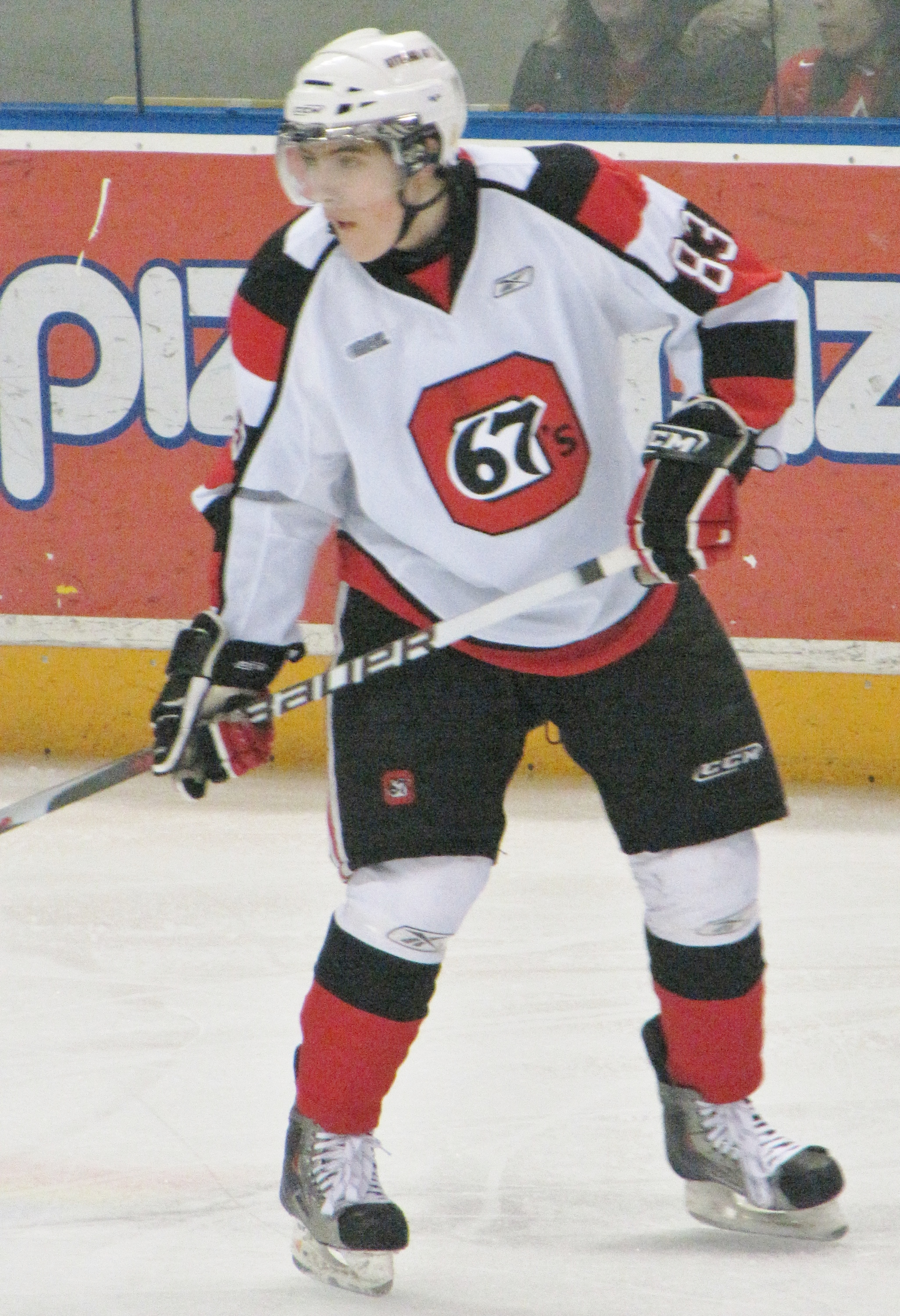 Cody Ceci, Canadian ice hockey defenseman